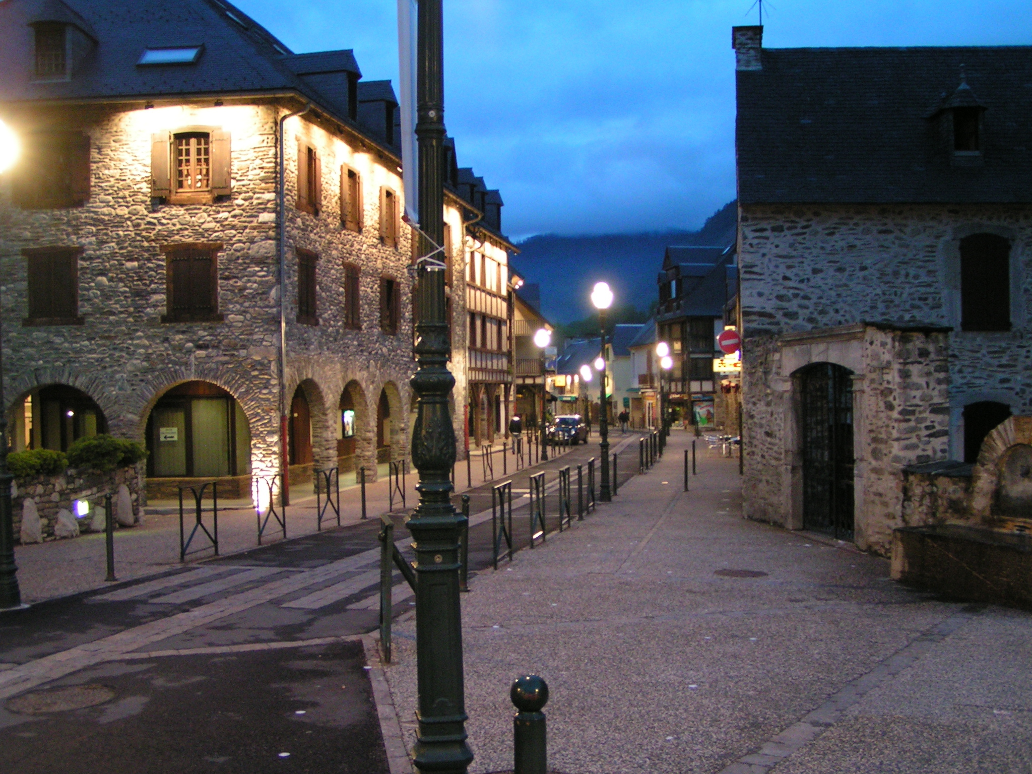 Saint-Lary-Soulan